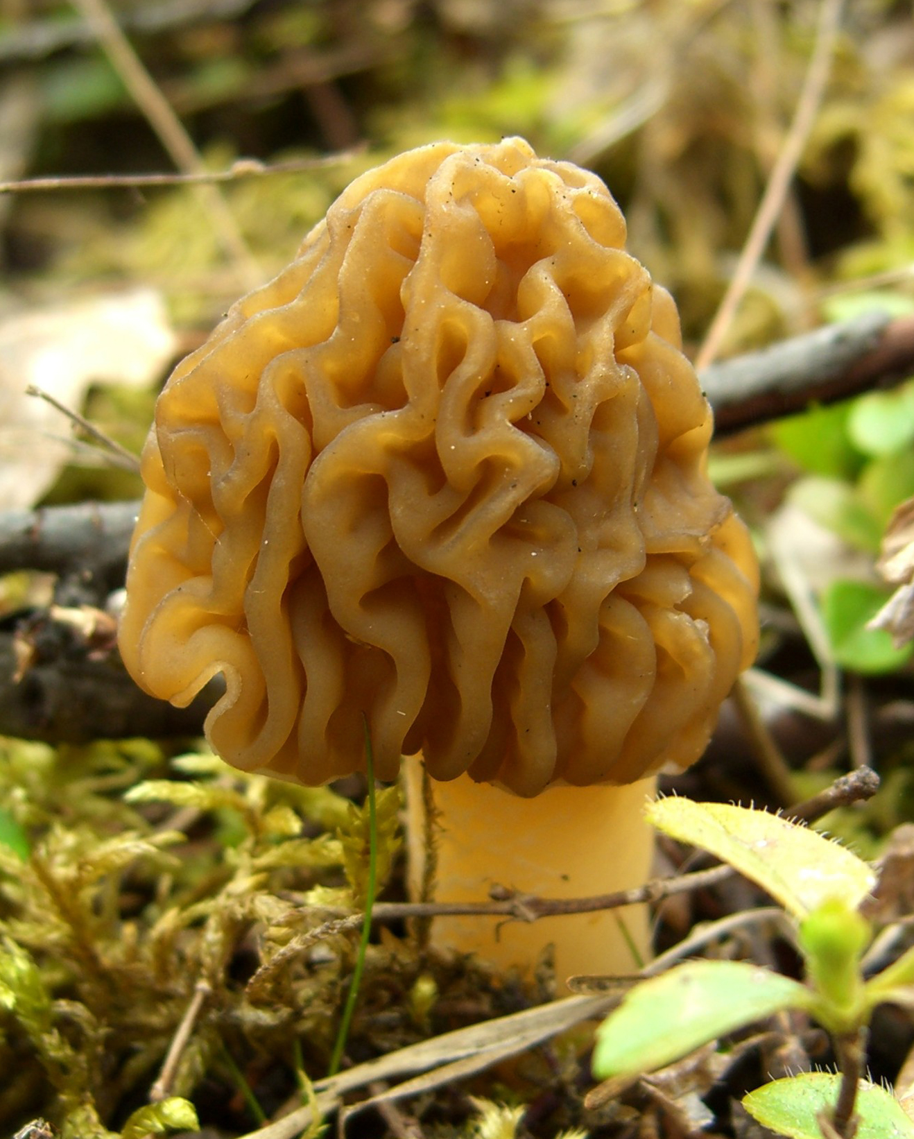 The "early false morel", species Verpa bohemica (Krombh.) J. Schröt. Photographed in Edgewood Blue, British Columbia, Canada.